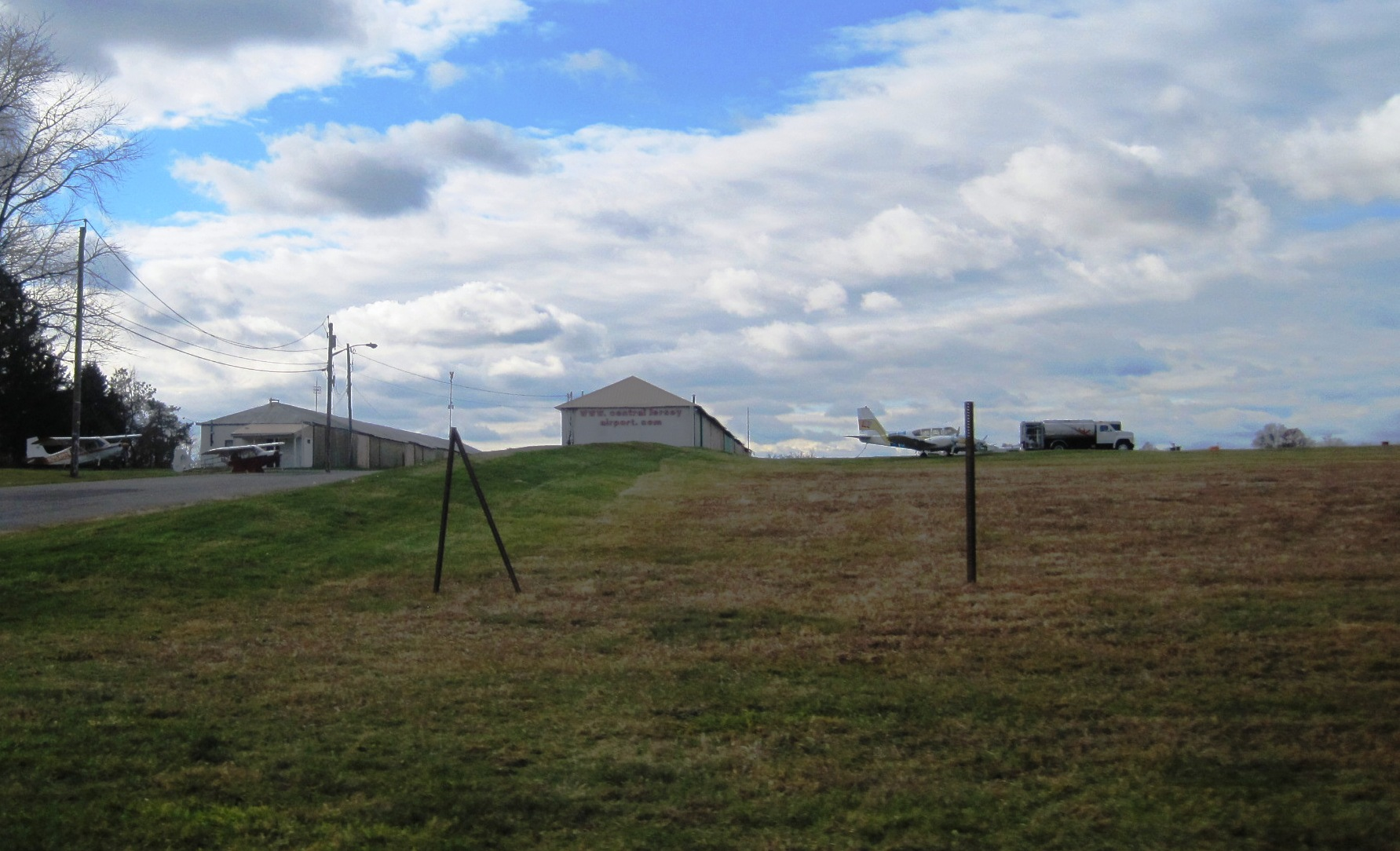 Photo showing the front of the Central Jersey Regional Airport in Hillsborough Township, New Jersey. Photo taken from County Route 533 (Millstone River Road).